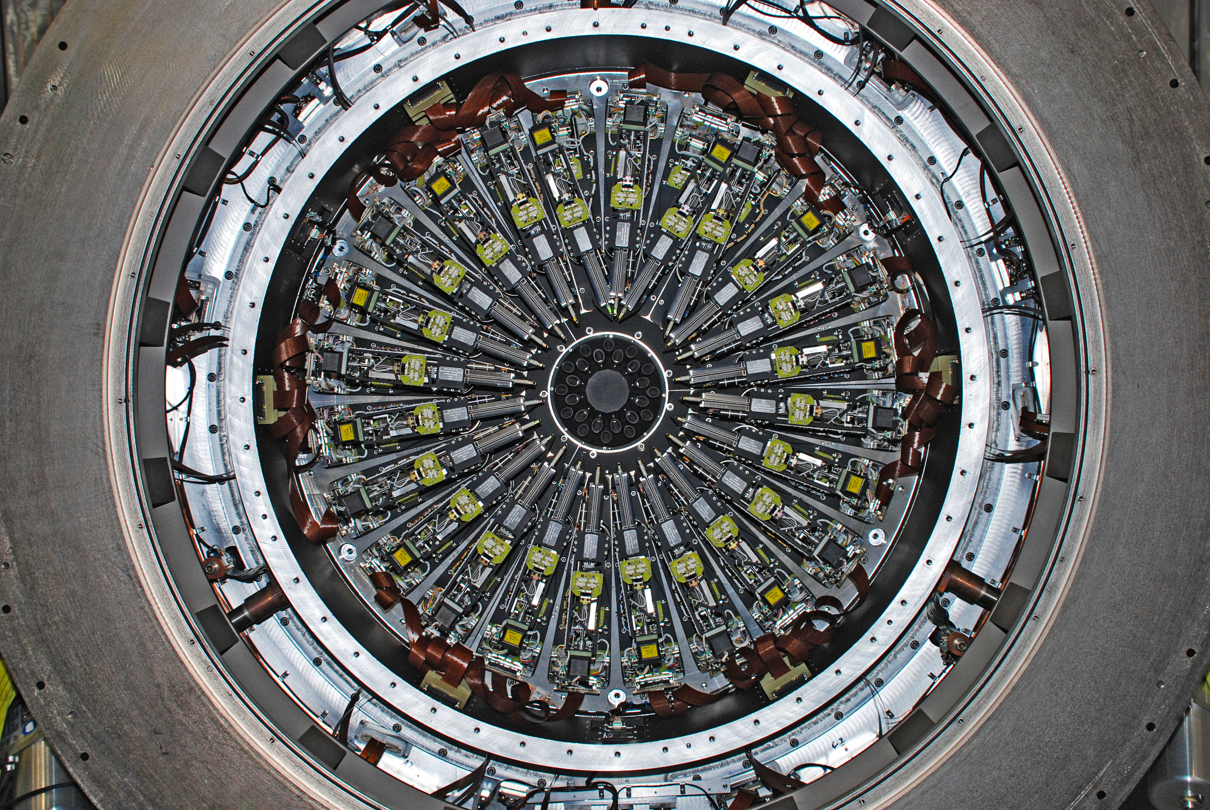 The KMOS spectrograph is shown when it was undergoing tests at the UK Astronomy Technology Centre in Edinburgh, before it was shipped to Chile to become a powerful new instrument on the Very Large Telescope. The 24 robotic arms are visible.